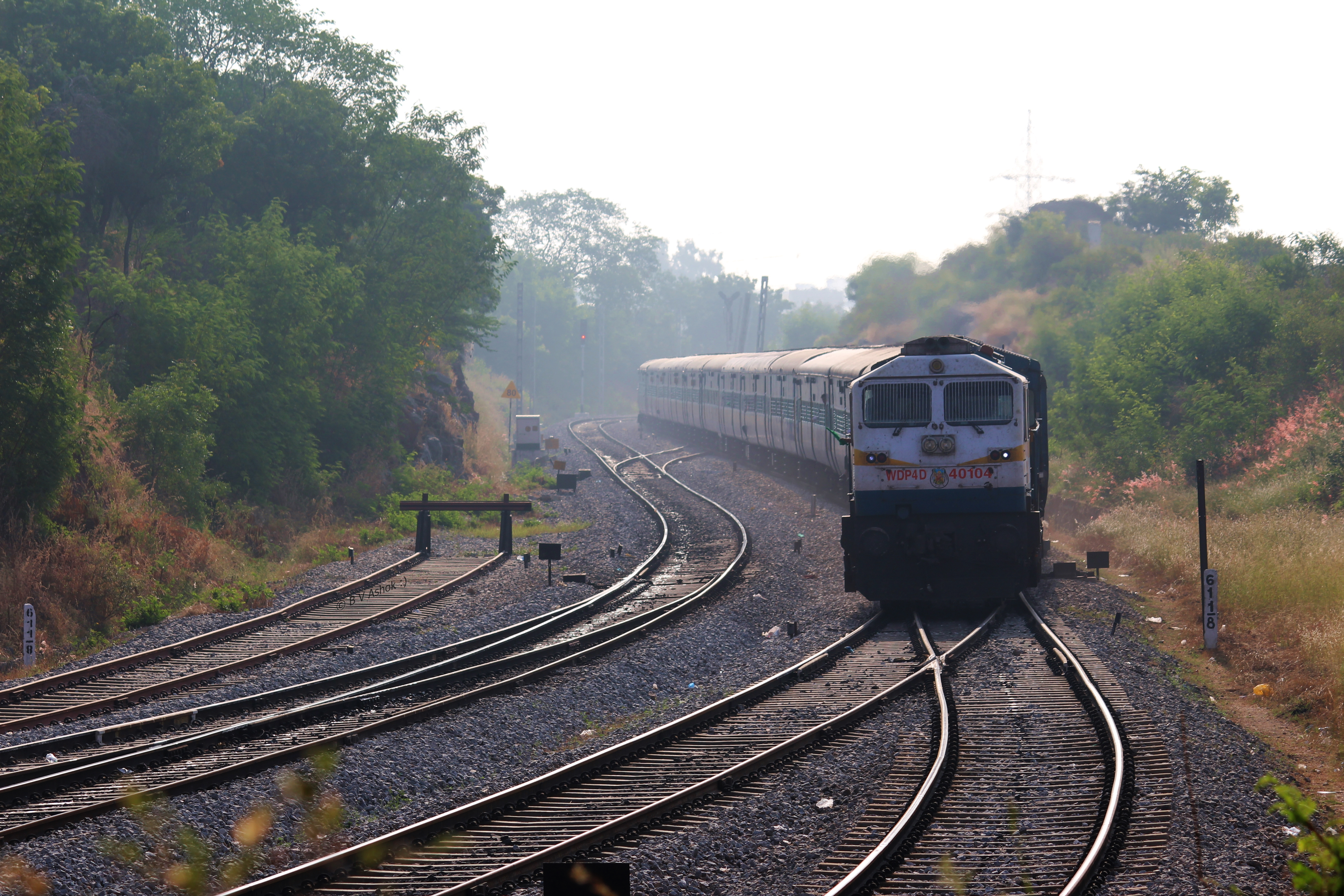 GY WDP-4D 40104 cruising through with 17639 Kacheguda - Akola Intercity Express....